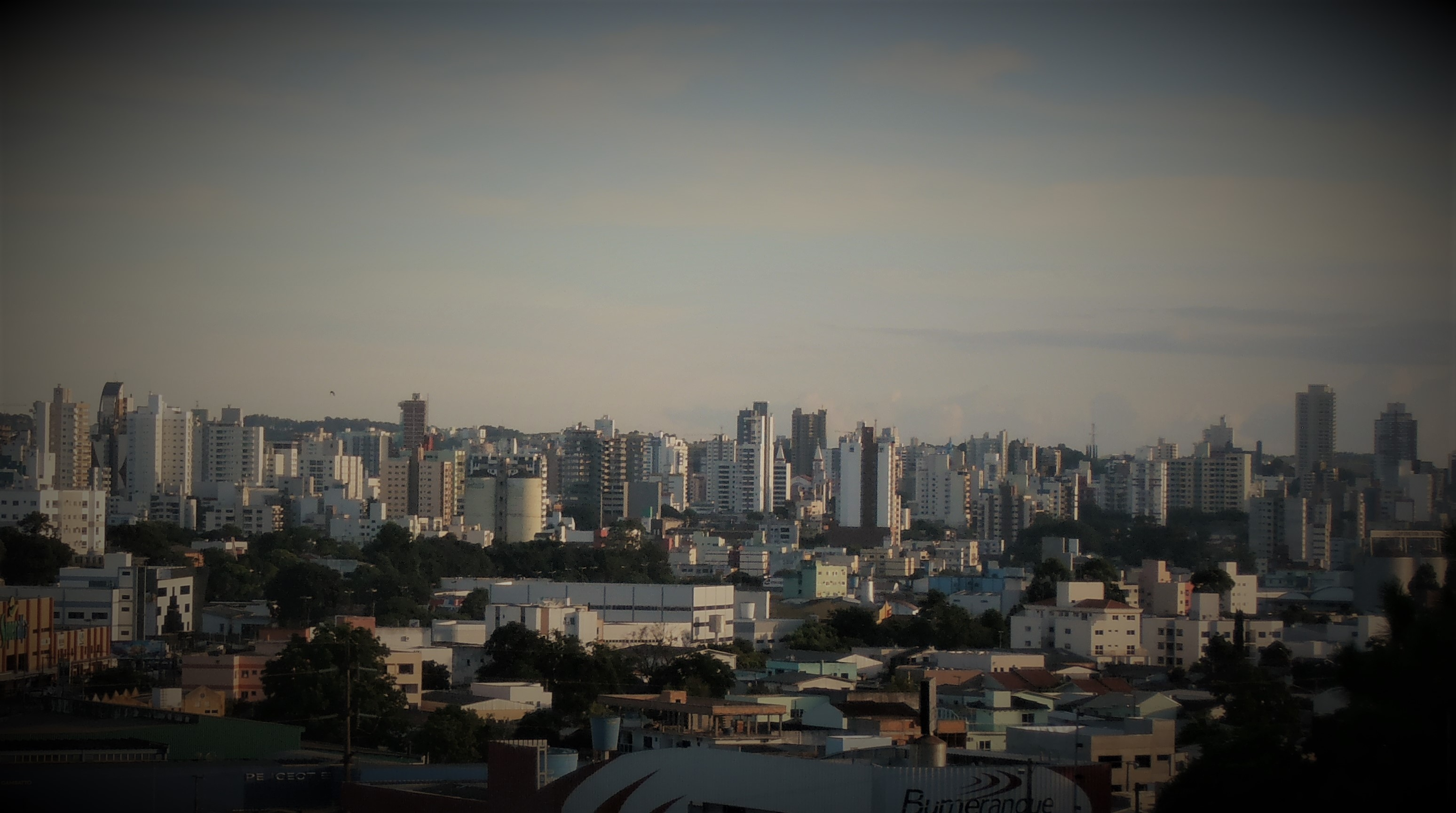 Região central da cidade de Chapecó -SC Janeiro de 2017